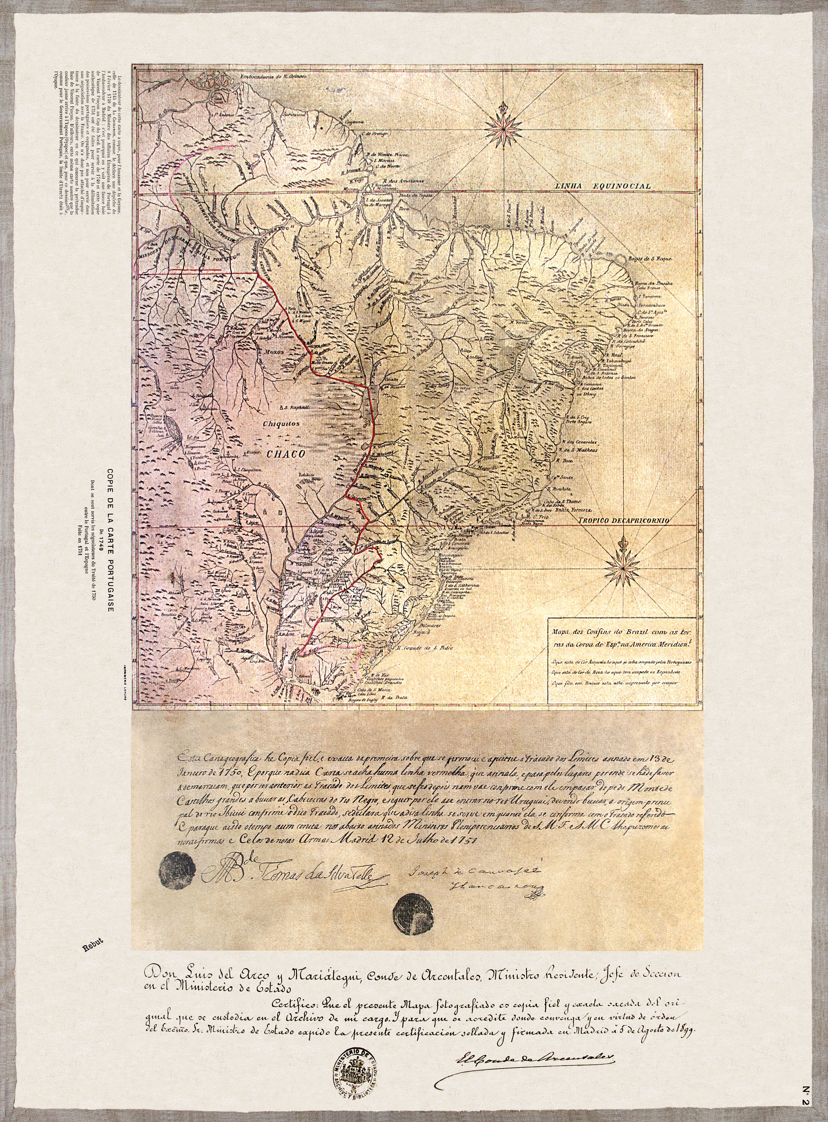 Mapa dos confins do Brasil com as terras da coroa de Espanha na américa meridional – "mapa das cortes" (Map of the borders of Brazil with the crown lands of Spain in South America - "Court Map".) Drawn in 1749 by Alexandre de Gusmão to assist negotiations for the Treaty of Madrid, signed on January 14, 1750. Collection of the Arquivo Público do Distrito Federal. Governo de Brasília